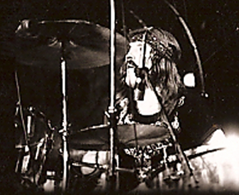 A cropped and despeckled version of a picture of John Bonham of Led Zeppelin playing with the band in at Madison Sq Garden or Nassau Coliseu c. 1973